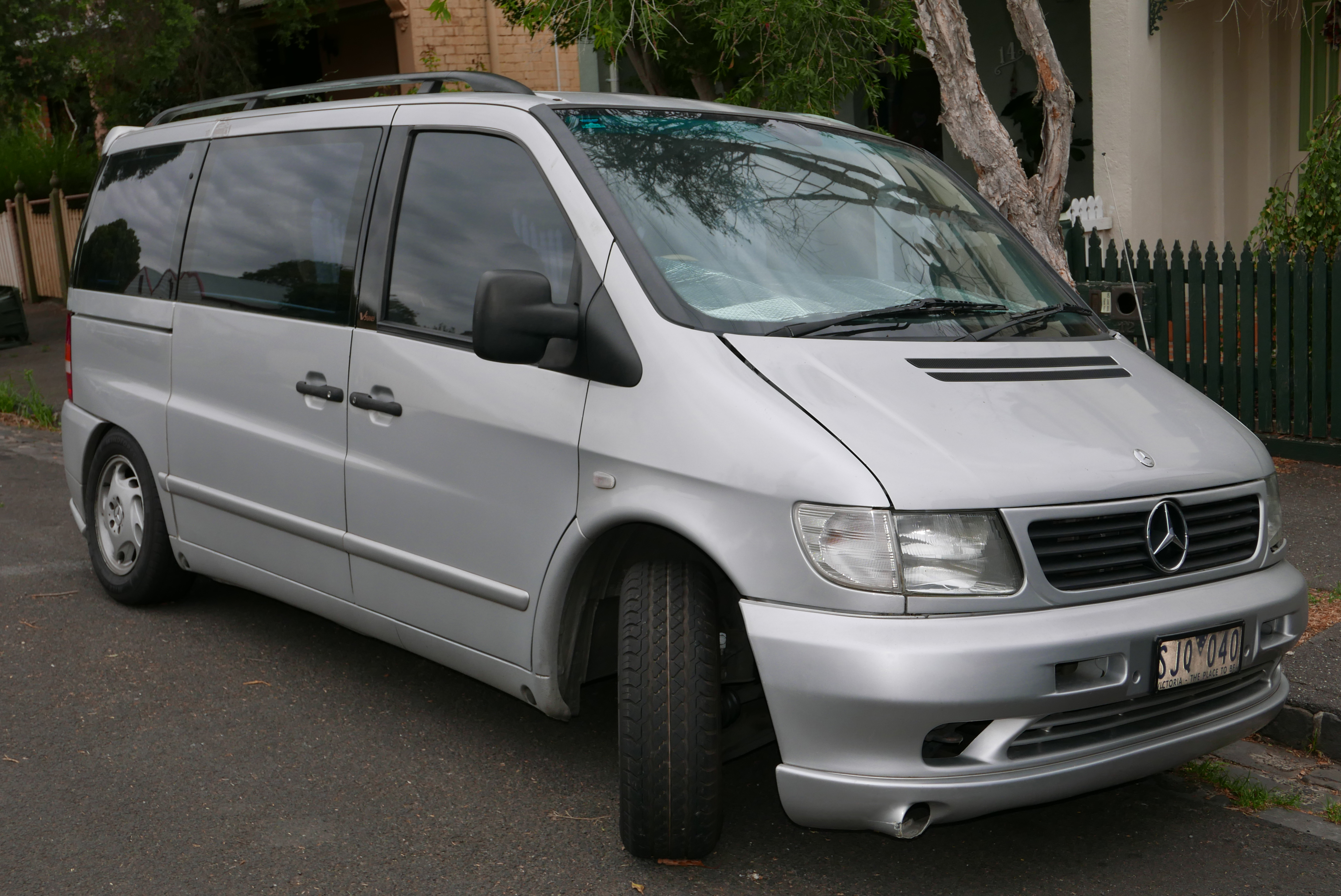 2001 Mercedes-Benz V 200 (W 638) van. Despite the date discrepancy with the vehicle registration information below, a check of the VIN reveals a "delivery date" of 4 September 2001. Photographed in Brunswick, Victoria, Australia. Vehicle registration enquiry resultsJurisdictionVictoriaRegistrationSJQ040Chassis codeVSA63809423414332Engine code11198032167355Compliance date2002-05Year of manufacture2001 (not a typo)